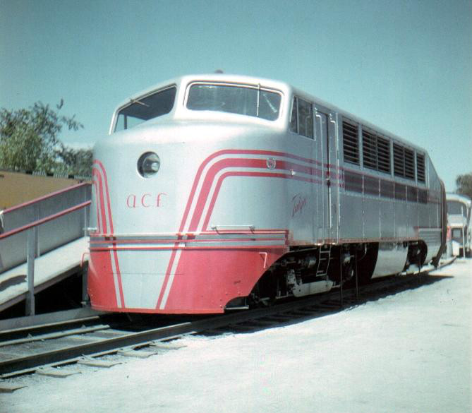 Chicago Railroad Fair. Chicago Railroad Fair, 1948 - 1949. A Talgo locomotive which was produced in the United States by American Car Foundry. The locomotive was on display as part of Chicago's Railroad Fair which ran from 1948 to 1949.